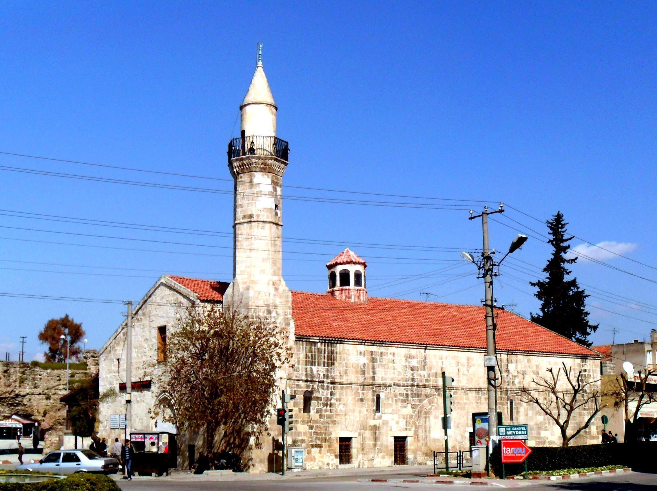 Tarsus Old Mosque from south west